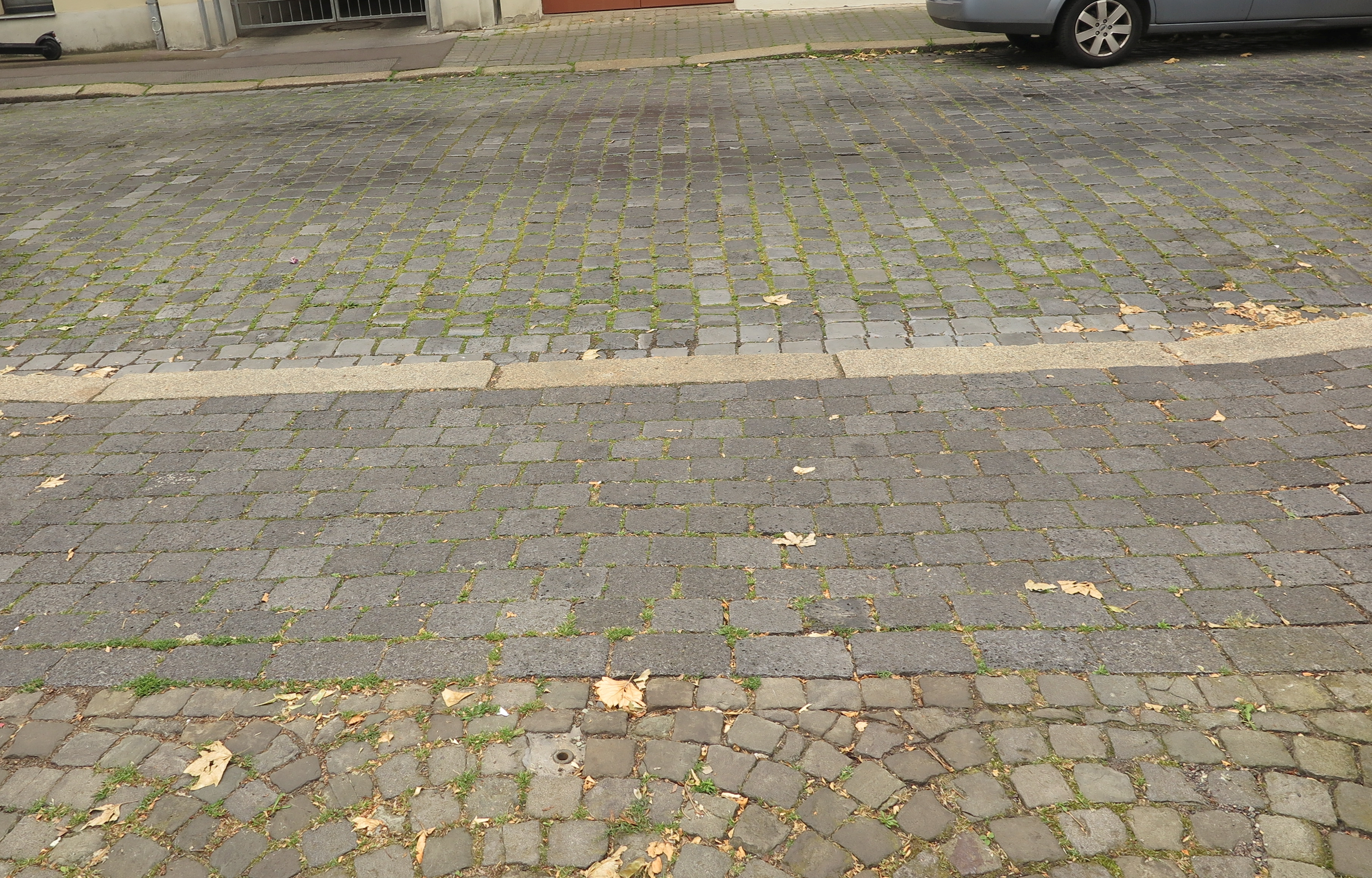 Different kinds of slag stones in the Emil-Abderhalden-Straße in Halle (Saale), Germany